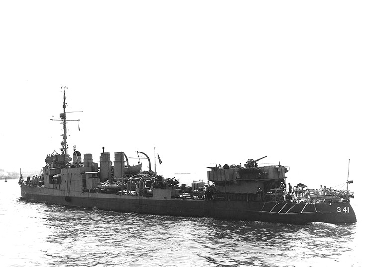 Removed caption read: Photo # NH 91581 USS Decatur off the New York Navy Yard, 7 August 1943